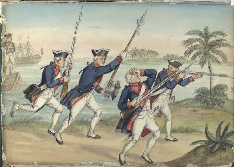 attacking spanish infantry (about 1740)